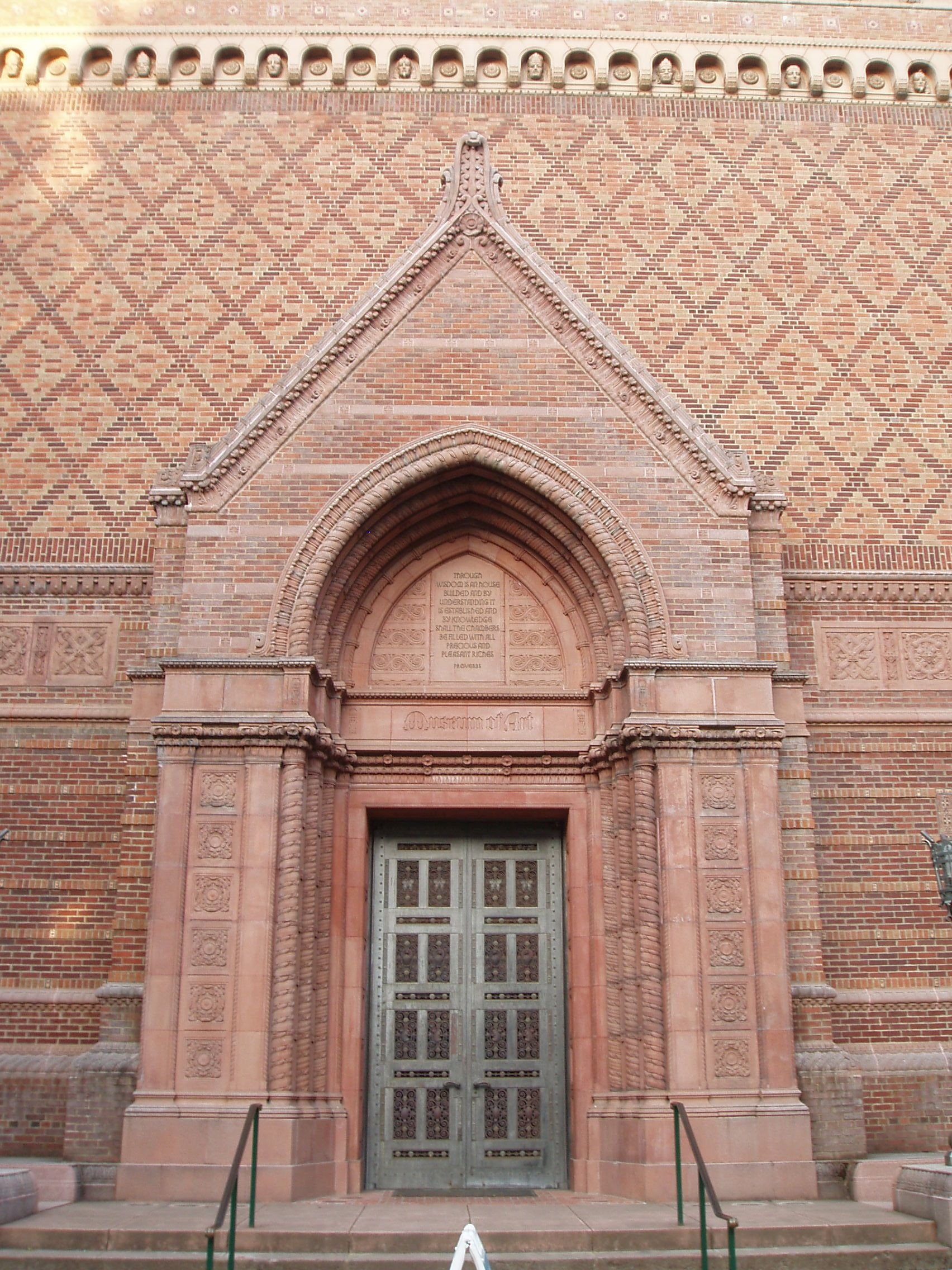 Closeup of the main entrance to the Museum of Art, on the University of Oregon campus in Eugene, Oregon.